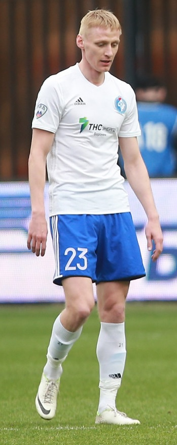 Ivans Lukjanovs with FC Fakel Voronezh in a game against FC Dynamo Moscow.